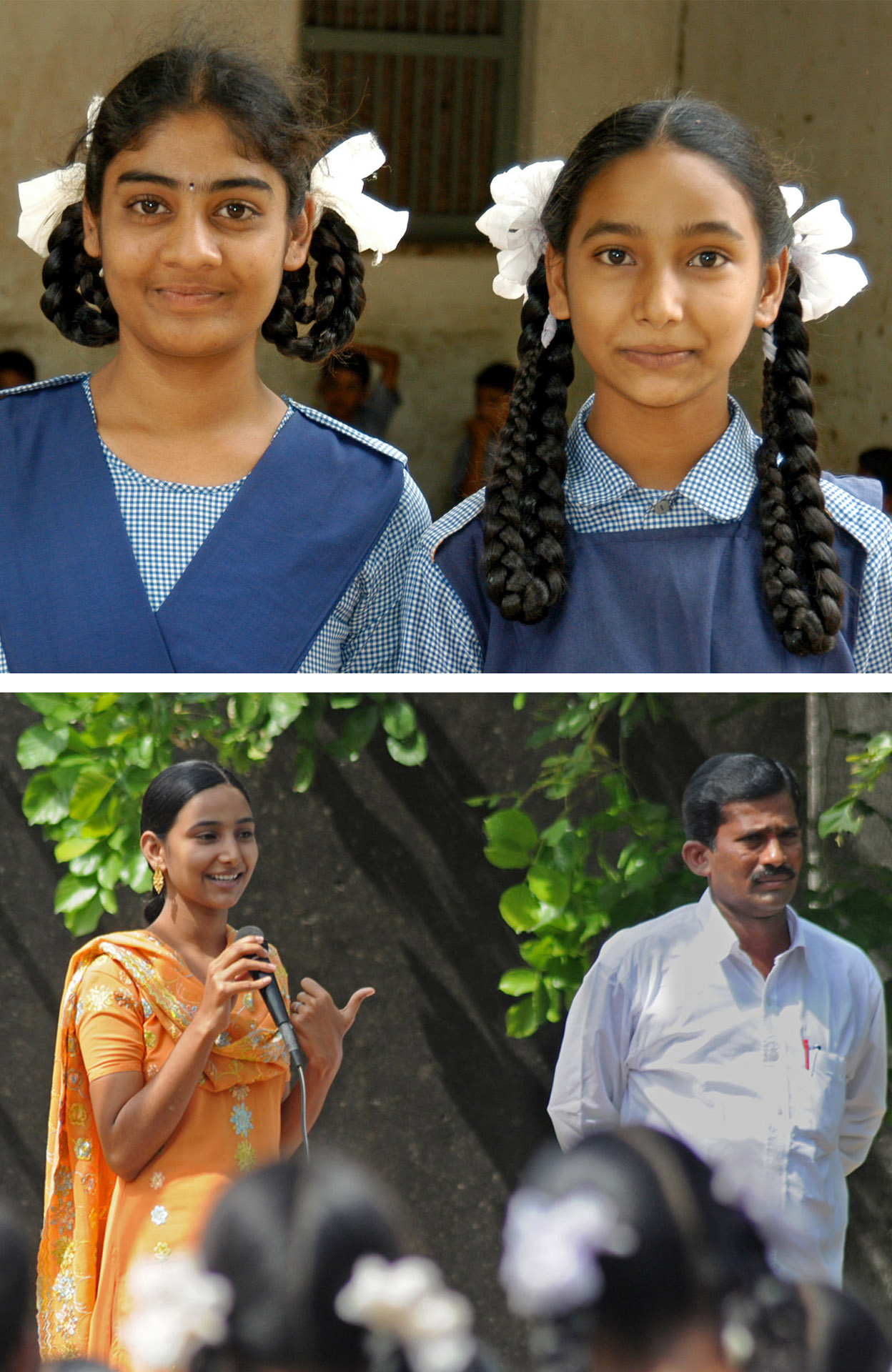 TOP: Pranitha and Fauzia, a Hindu girl and a Muslim girl, at Kalleda Rural School in 2004. Four years later, Pranitha went to the Beijing Olympics on the Indian archery team, and Fauzia was hired to her first job, with the Transportation Division of General Electric, Hyderabad. BOTTOM: Fauzia returns to Kalleda to encourage younger students.